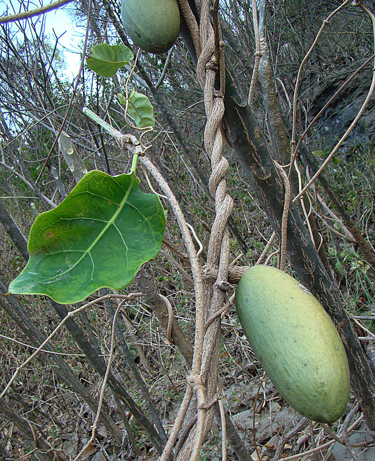 A moth pollinated species, also known as the Cruel Vine. Southwest Nicaragua. In context at